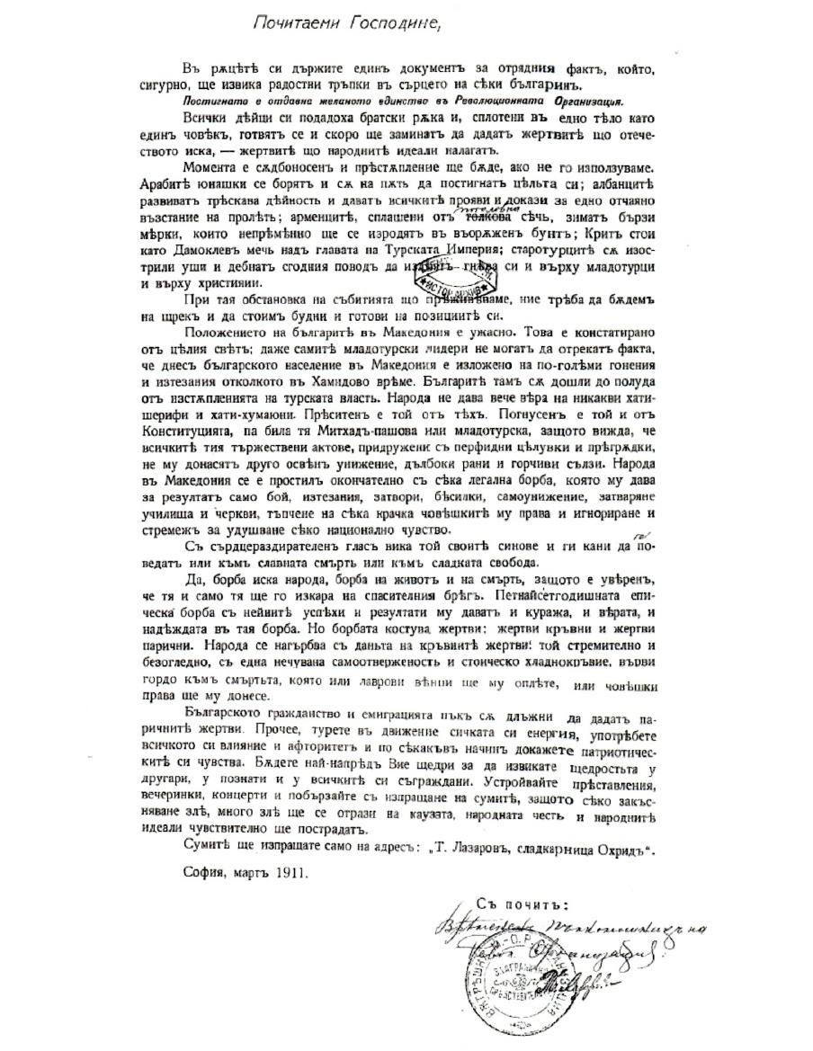 Appeal from IMARO leadership in Sofia, informing the Bulgarian public about the resumption of the organization.